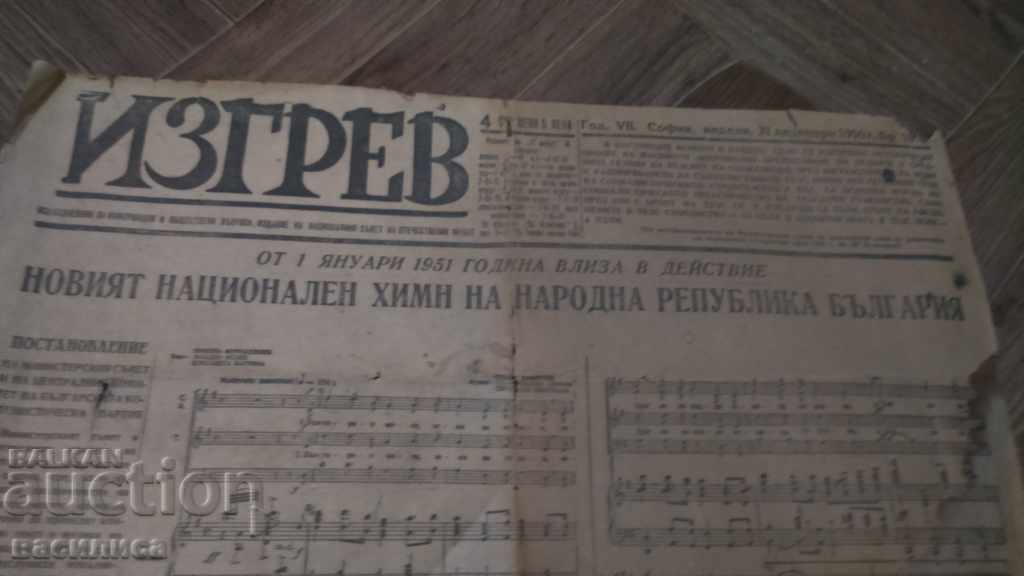 The new national anthem of the People's Republic of Bulgaria in the Izgrev newspaper